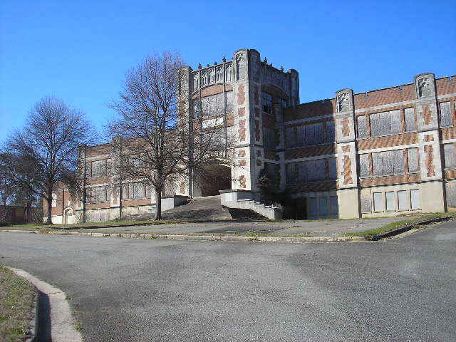 A.L. Miller High School and A.L. Miller Junior High School